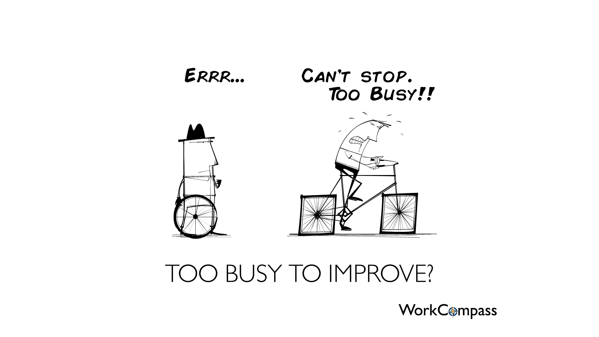 Free to use under CC. Please provide a link back to